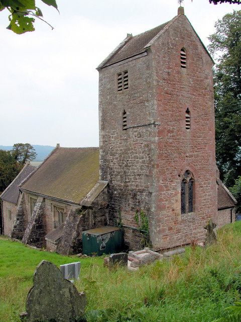 The Old Church Penallt This is a view from the higher end of the graveyard.